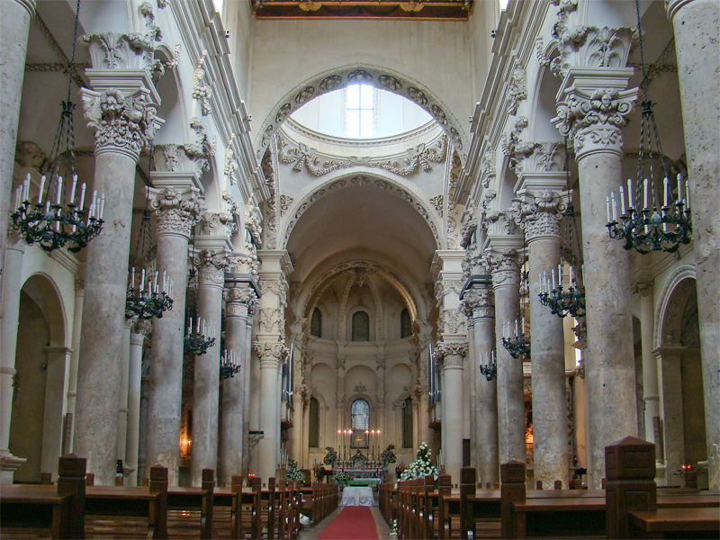 Basilica di Santa Croce, Lecce, Apulia, Italy.